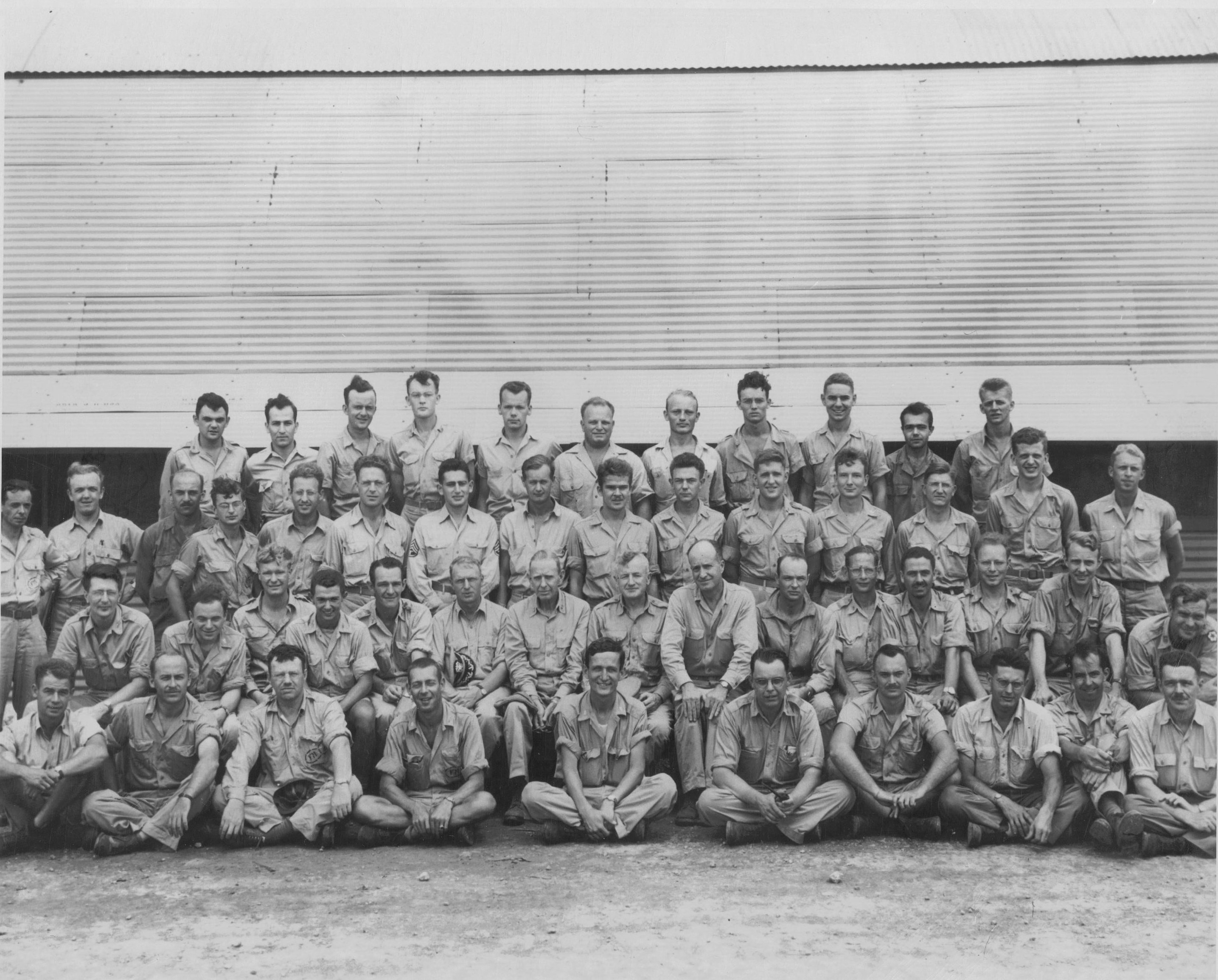 Group photograph of Project Alberta Front Row L to R: Victor A. Miller, Arthur B. Machen, Roger S. Warner, Harlow S. Russ, Norman F. Ramsey, Edward B. Doll, John L. Tucker, George T. Reynolds, Milo Bolstad, and Wesley R. Prohs. Second Row L to R: Charles P. Baker, Philip Morrison, W. G. Penney, Theodore Perlman, Thomas H. Olmstead, Francis A. Birch, Adm. W. R. Purnell, Gen. T. F. Farrell, Com. William S. Parsons, Frederick L. Ashworth, Robert Serber, Lawrence Langer, Bernard Waldman, Luis Alvarez, and James F. Nolan, MD. Third Row L to R: John D. Hopper, Edward G. Carlson, Leonard Motichko, Henry Limschitz, Benjamin B. Bederson, Raemer E. Schreiber, Walter Goodman, William L. Murphy, Robert P. Mathews, Robert W. Dawson, Harold Agnew, Lawrence H. Johnston, Edward C. Stephenson, David Anderson, and Donald Mastick. Back Row L to R: Morton Camac, Jesse Kupferberg, B. J. O'Keefe, Eugene L. Nooker, Gunnar Thornton, William J. Larkin, Donald C. Harms, Frank J. Fortine, Frederick H. Zimmerli, Vincent Caleca, and Arthur W. Collins.